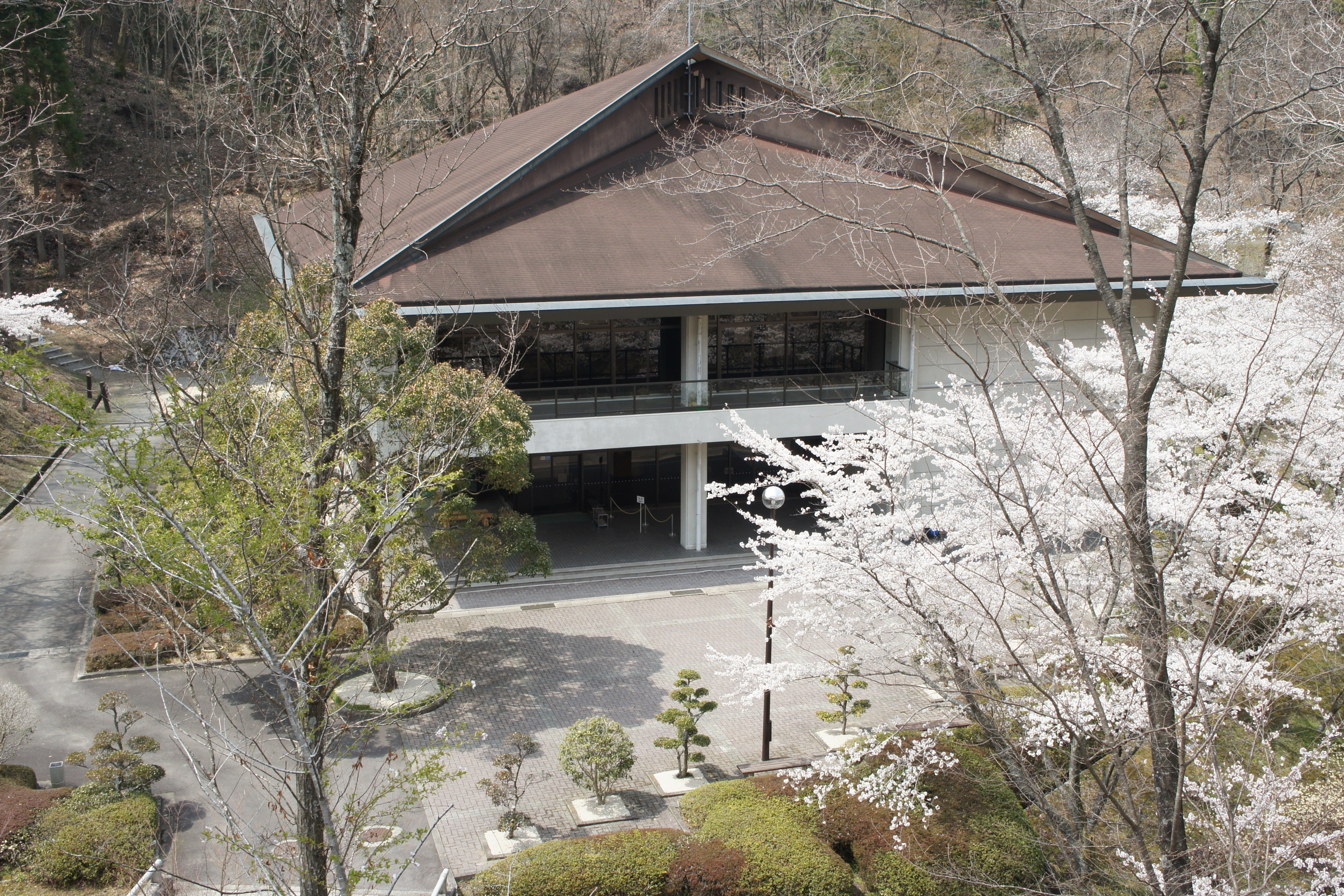 Paper Art Museum, Toyota, Aichi, Japan